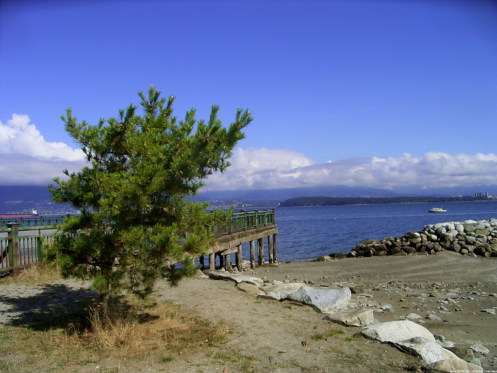 Jericho Beach from flickr